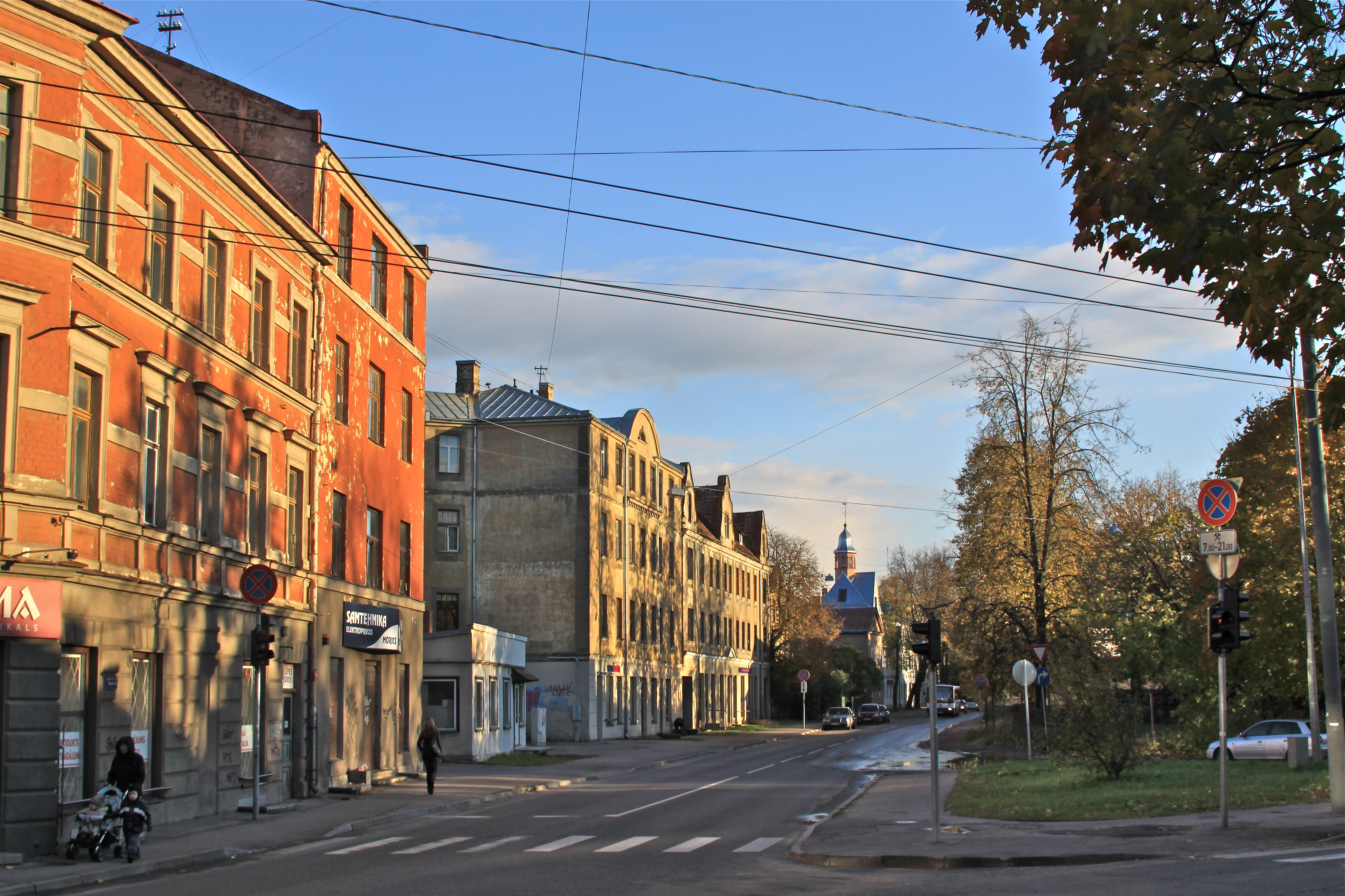 Bauskas iela (Bauska Street), Riga, Latvia